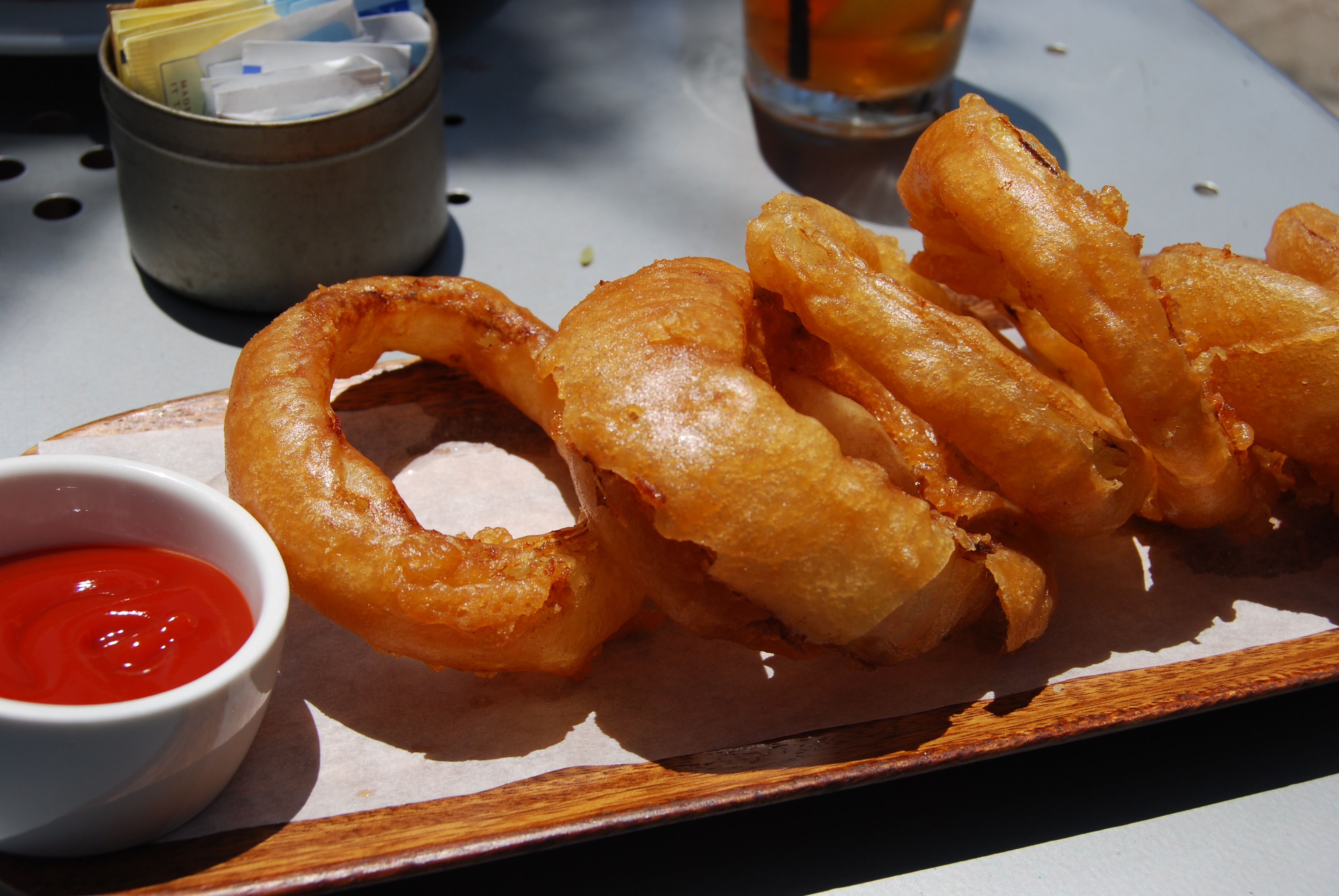 Deep-fried onion rings arranged in a line on a platter with ketchup, as served by Ford's Filling Station at 9531 Culver Boulevard in Culver City, California, USA.I really only wanted onion rings.